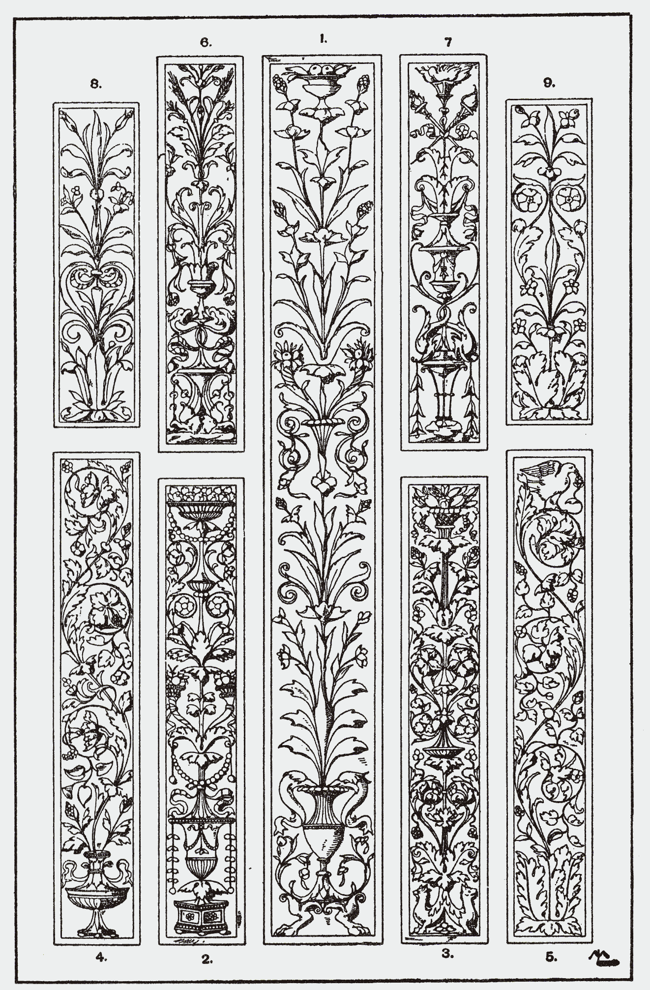 Plate 131. The Pilaster Panel. 1. Italian Renascence 2-5. Italian Renascence, Sta. Maria dei Miracoli, Venice. 6-7. Italian Renascence, by Benedetto da Majano. 8-9. Modern Panels, in the style of the Italian Renascence.